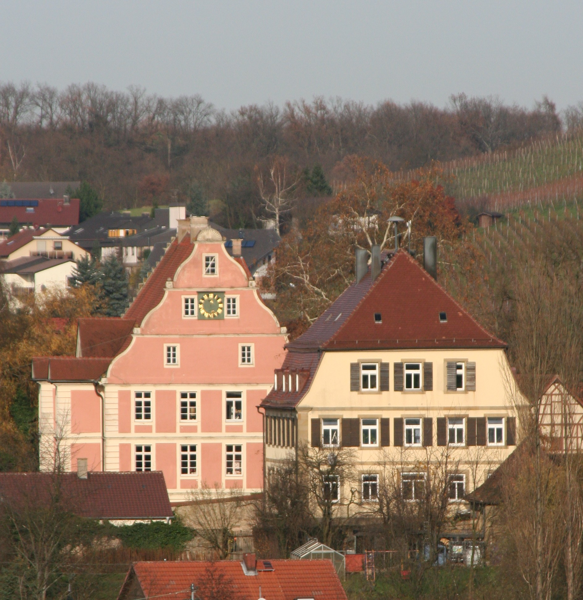 The castle in Obersulm-Eschenau